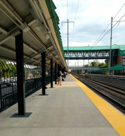 Halethorpe MARC Station in Halethorpe, Maryland on the Southbound Platform towards Washington.